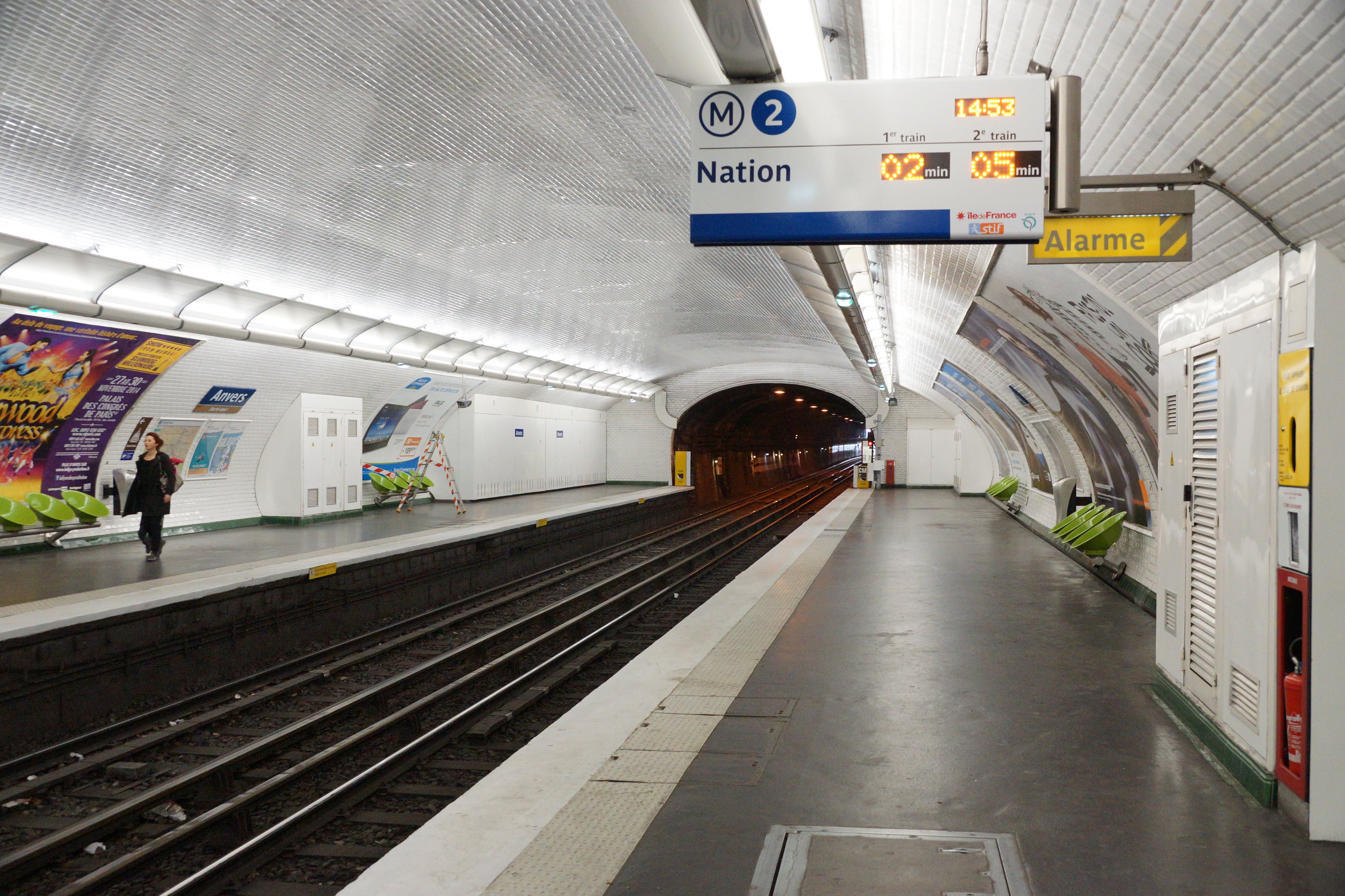 Anvers metro station, Paris.